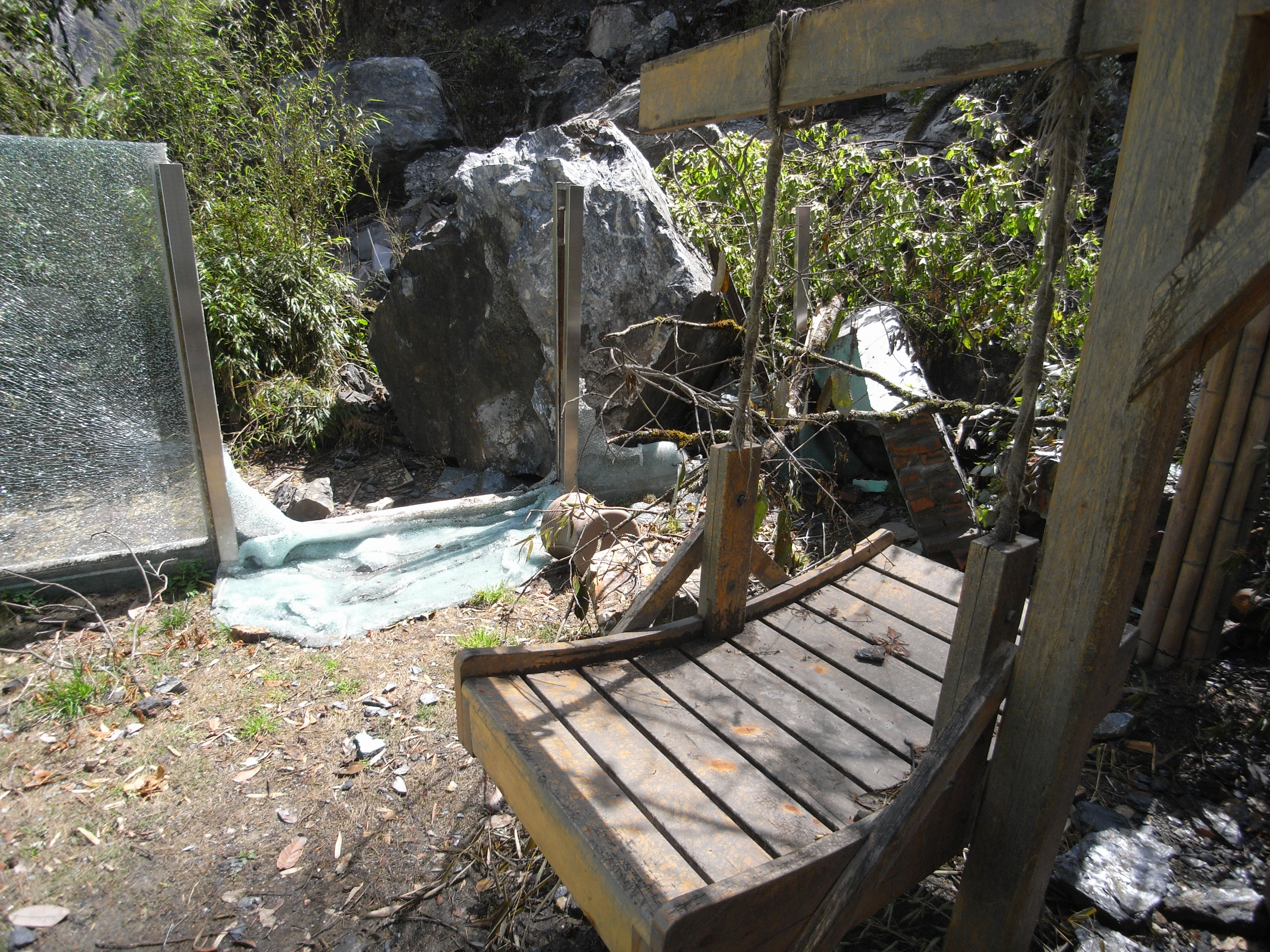 The China Conservation and Research Center for the Giant Panda (CCRCGP) in Wolong, Sichuan was badly hit by the earthquake. 1/5 panda houses were broken, 3 pandas were missing, 2 lightly injured.